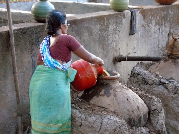 Preparation process of Cashew Feni documented by independent editor, legal counsel and film-maker Gajanan Khergamker. The mini-distillery depicted in the image belongs to the Kundaykar family in Arambol, north Goa. This has been undertaken to preserve and popularise the dying tradition of Feni-making which is an integral part of Goan culture.